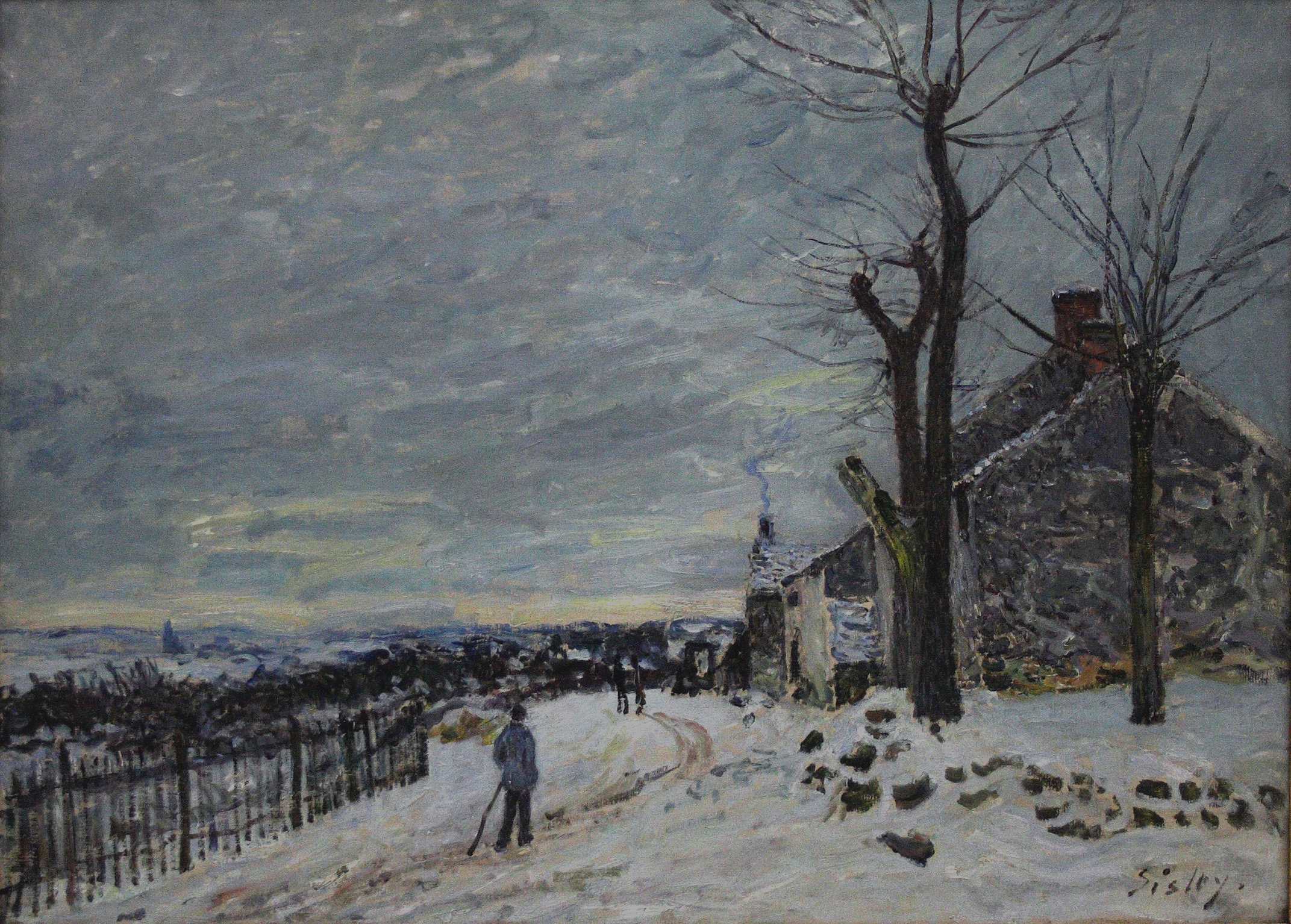 Painting of Sisley in the Orsay Museum, Paris